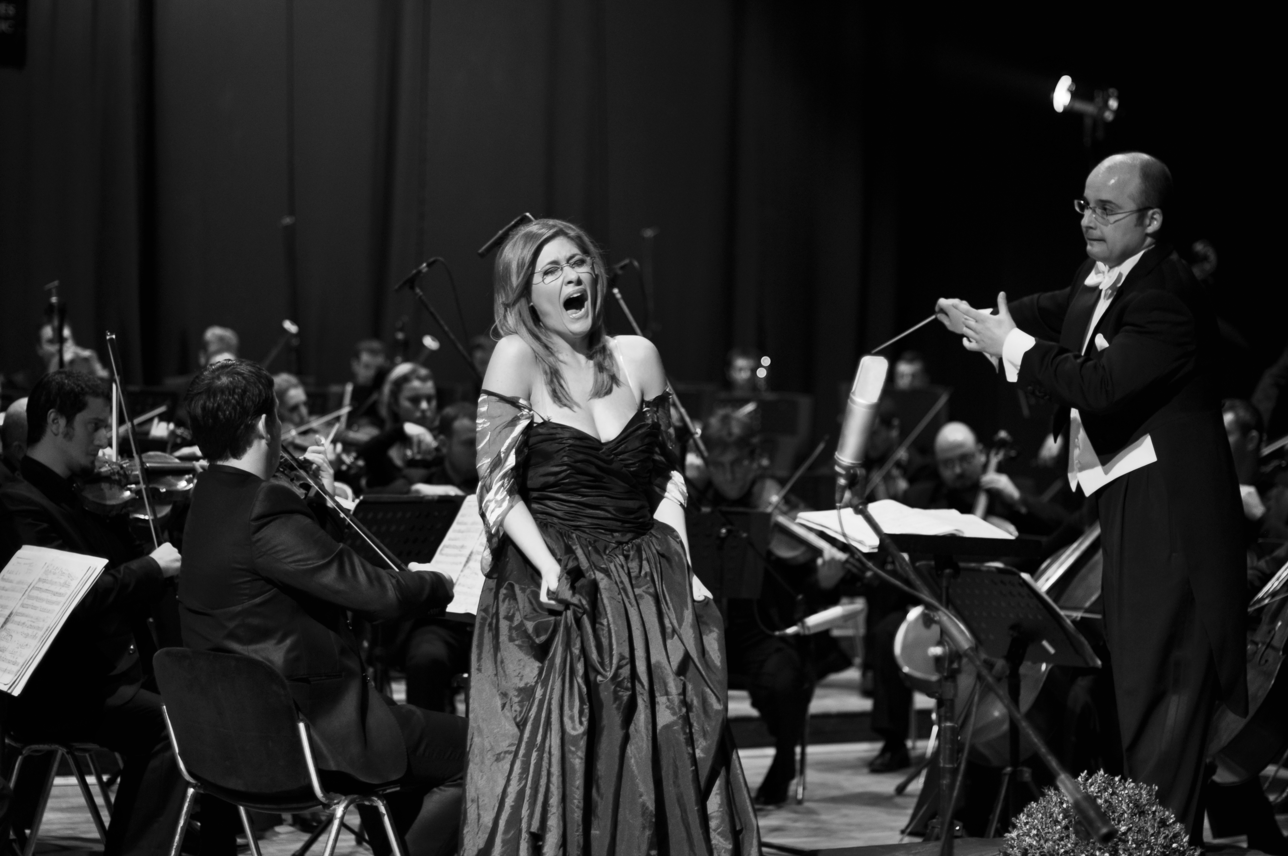 Filharmonia e Kosoves